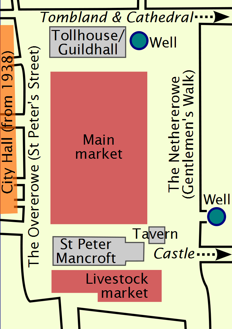 Layout of former and current streets and significant structures in Norwich Market, Norwich, England